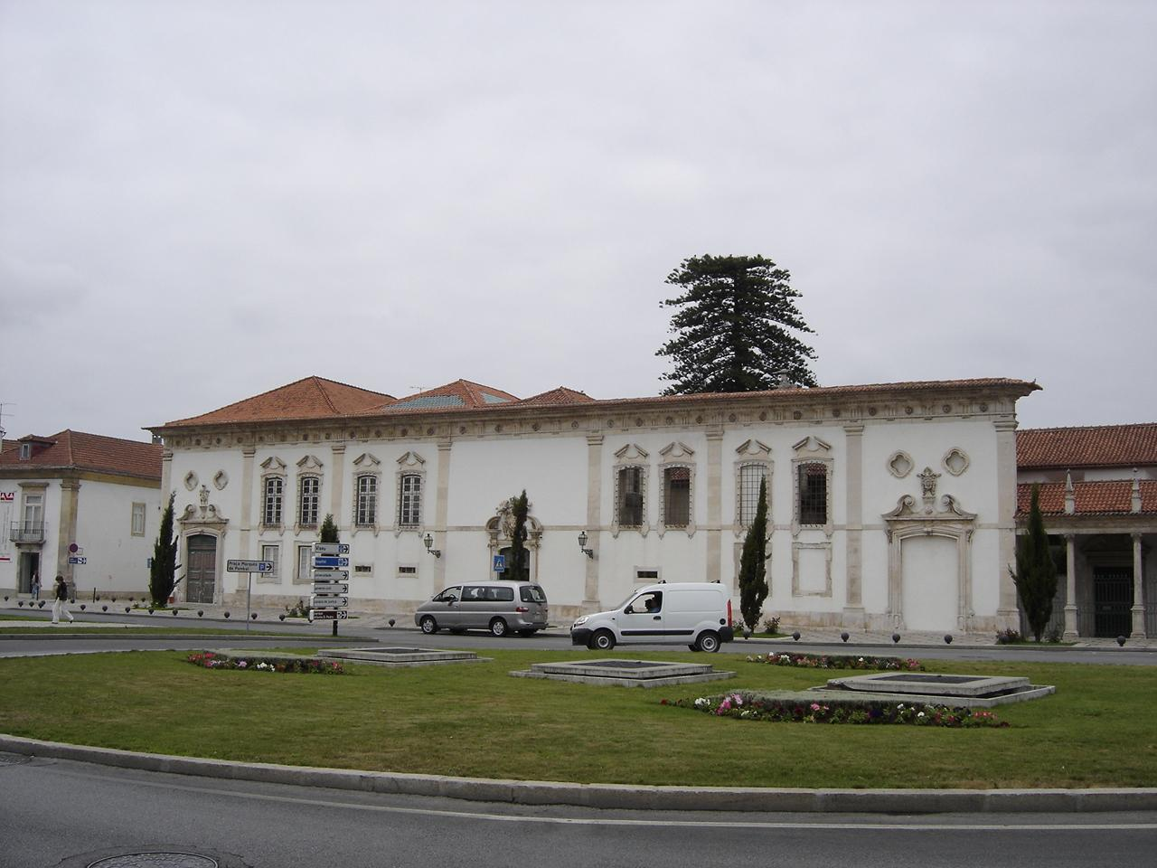 Convento de Jesús at Aveiro, Portugal